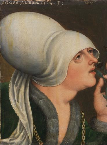 Anna of Austria (d.1462), claimant to Luxembourg